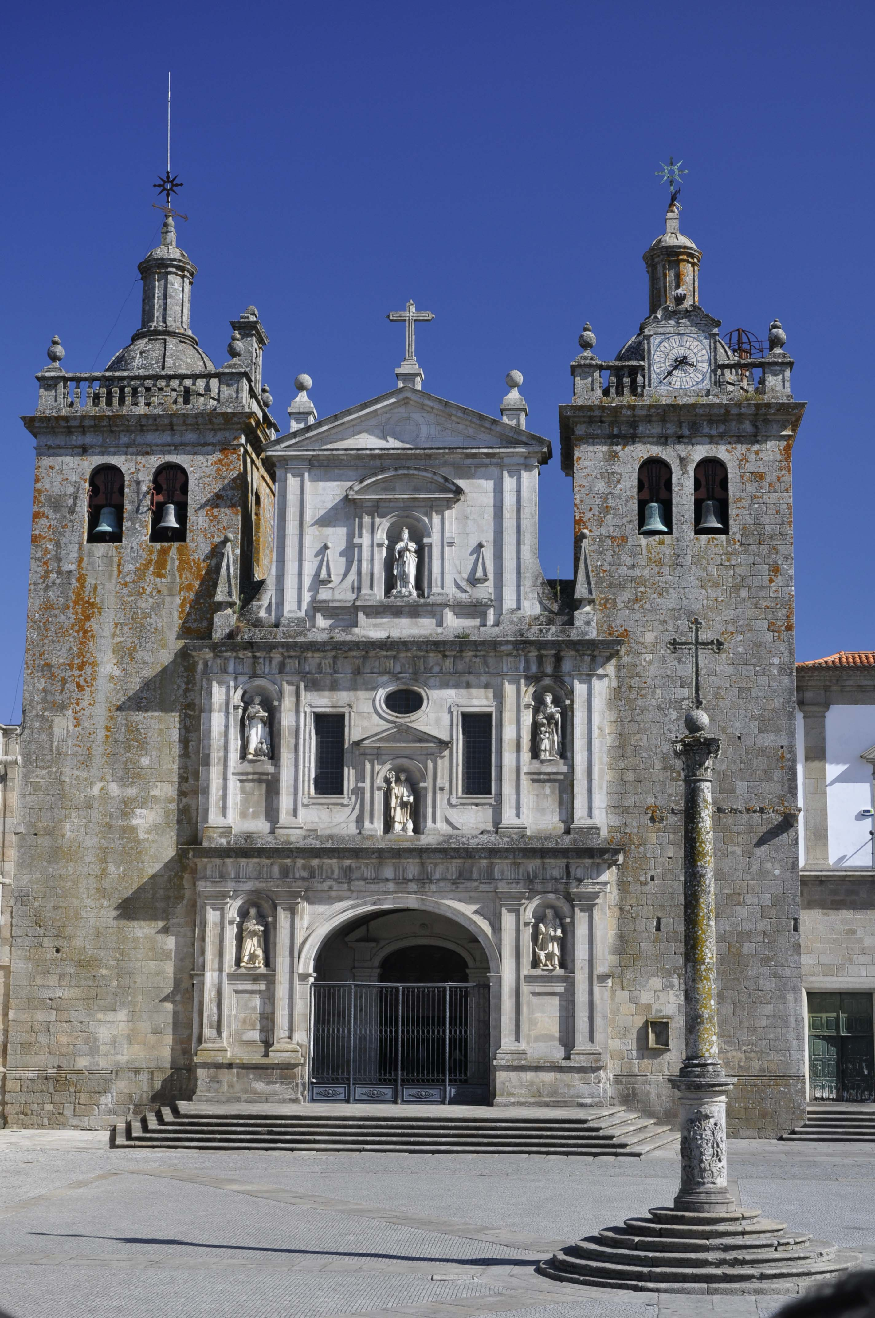 Sé of Viseu